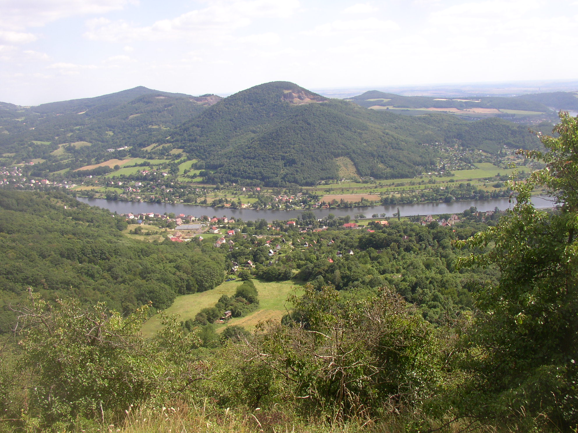 České středohoří, Czech Republic. A view from Skalky lookout point towards Deblík (459 m) in the southeast. In the background Varhošť (639 m, left) and Strážiště (362 m, right).